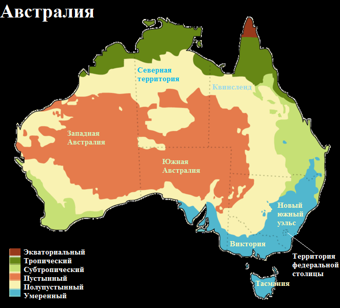 A climate map of Australia. Based on a map from the Australian Bureau of Meteorology See: [1]